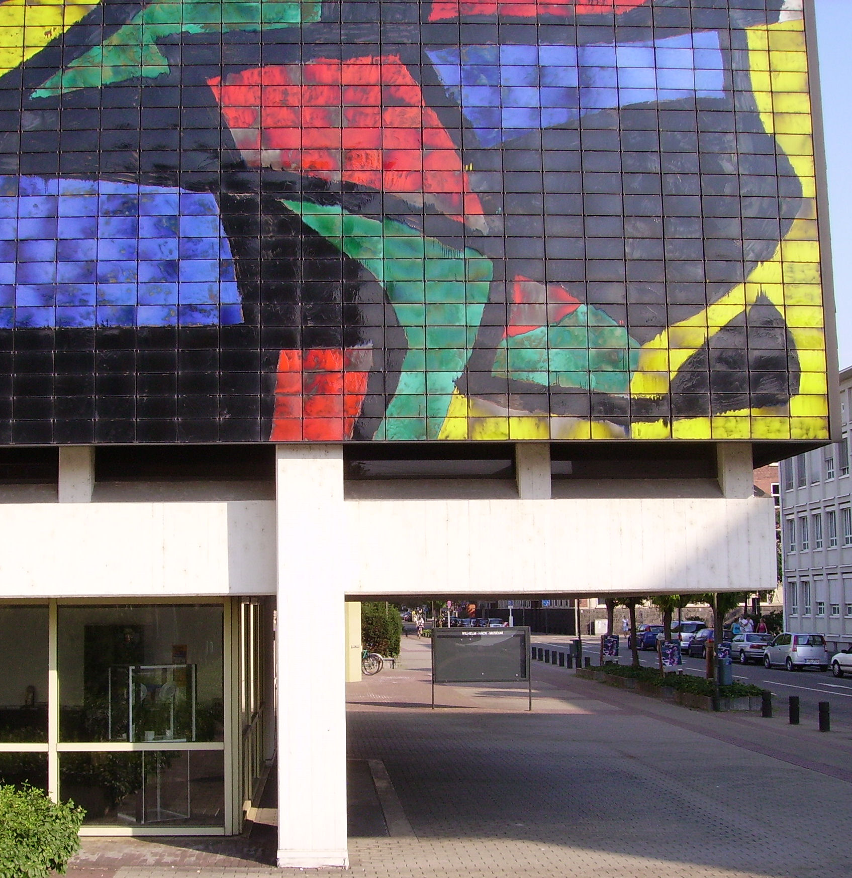 mural of Joan Miró in Ludwigshafen, Germany